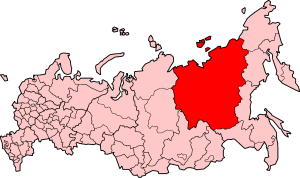 The map of Sakha Republic